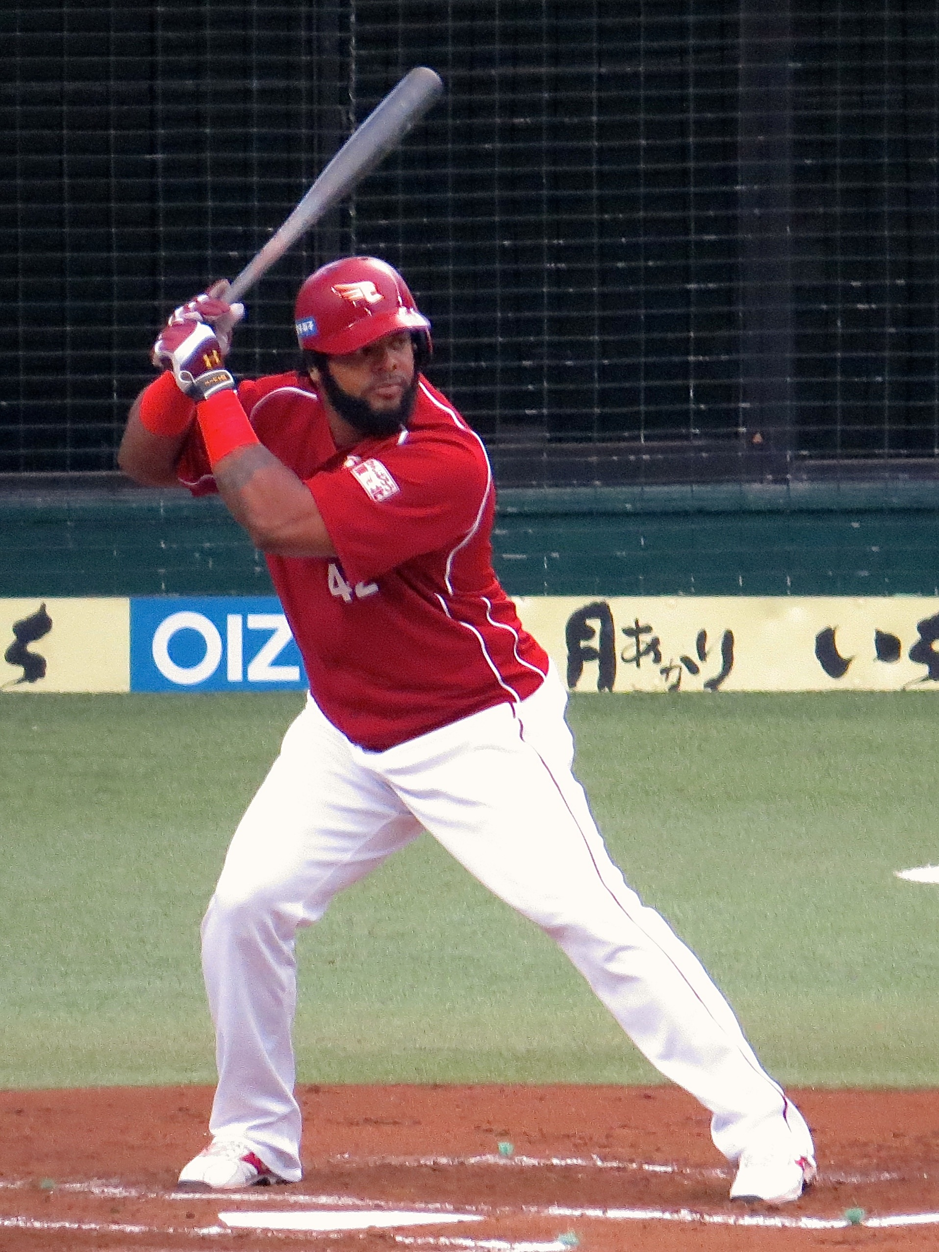 Wily Mo Peña, infielder of the Tohoku Rakuten Golden Eagles, at Seibu Dome.